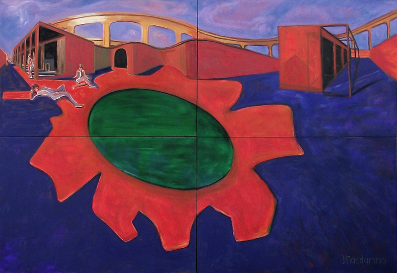 Photograph of a painting with the consent of the author. Painted in 1997.